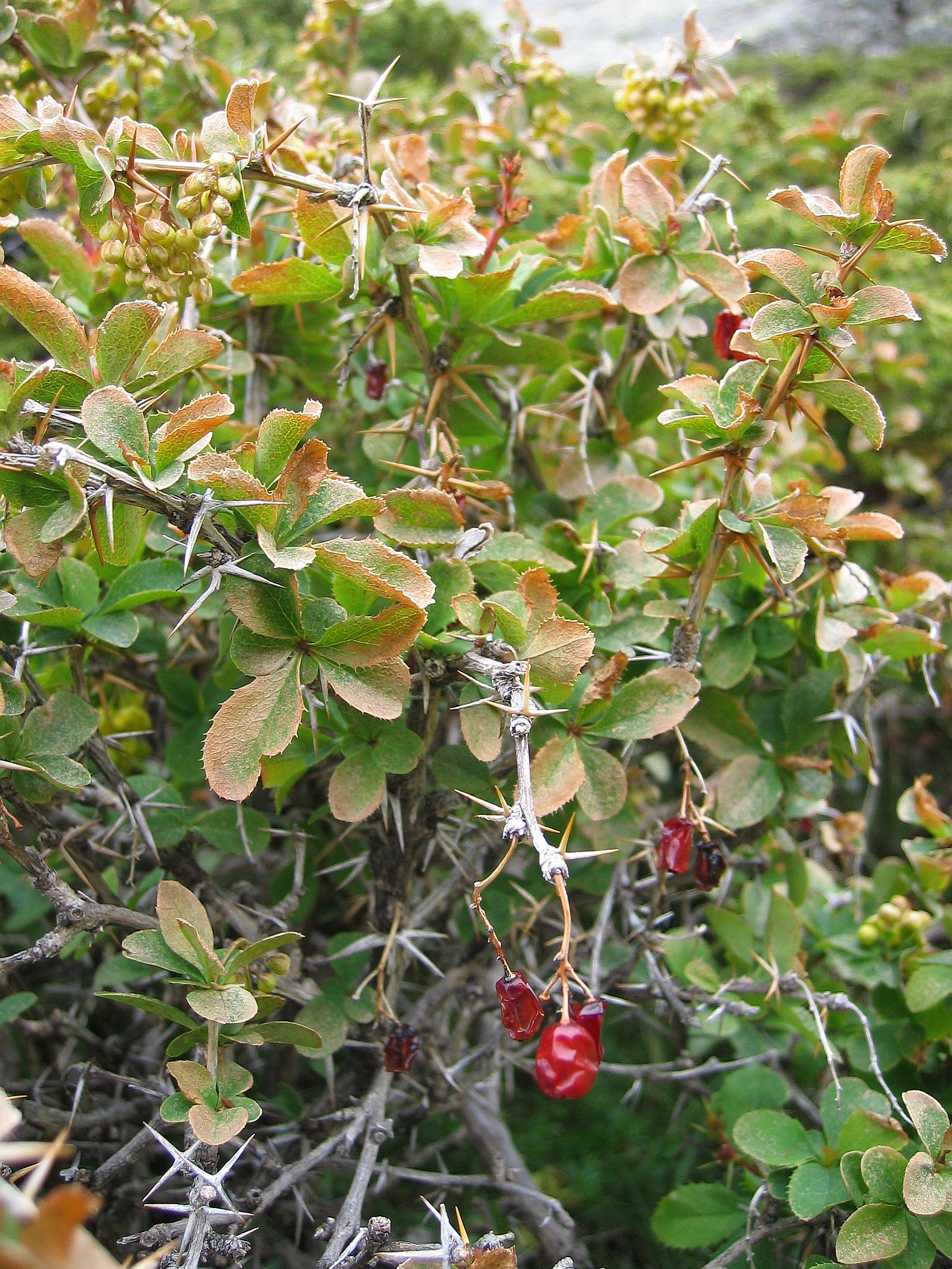 Berberis aetnensis, near Monte Cinto ~1600, Corse